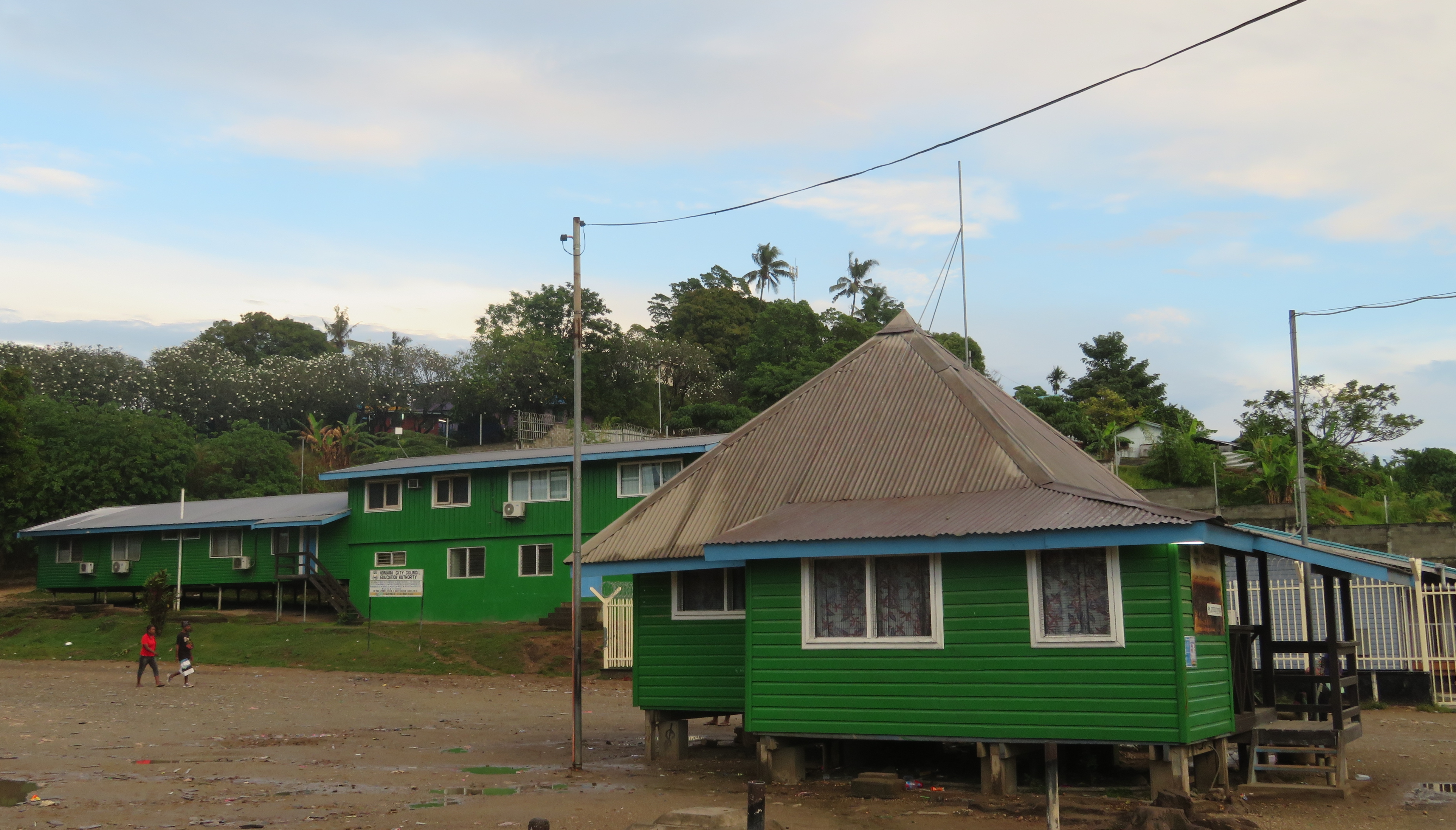 City Council, Honiara, Solomon Islands